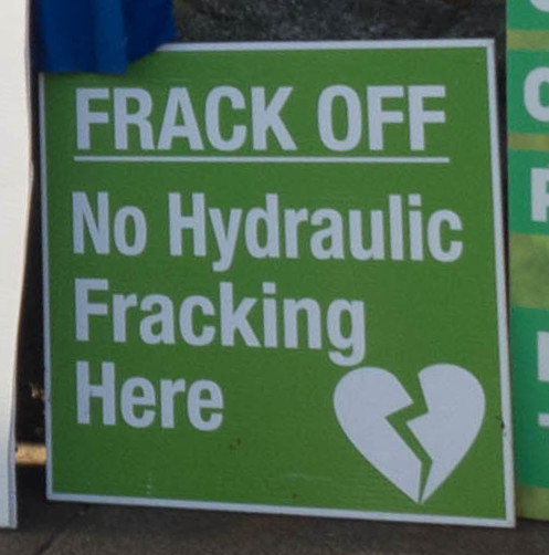 Placard against hydraulic fracturing, at Extinction Rebellion. "Frack off: no hydraulic fracking here".